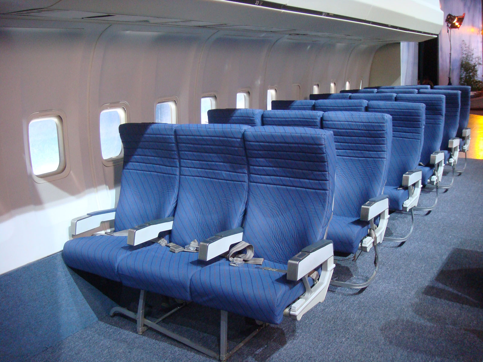 LOST Auction - seats on Oceanic 815